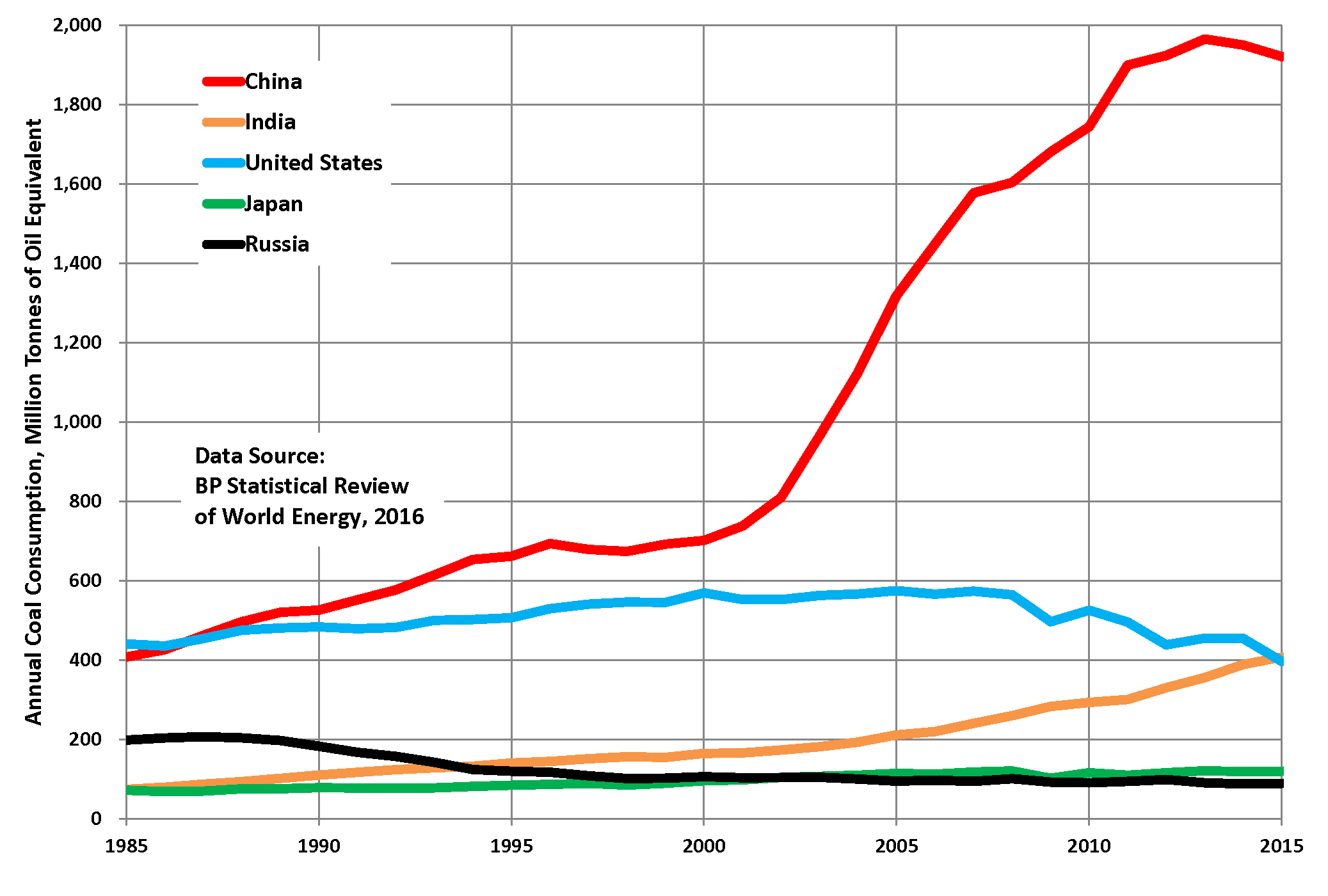 Consumption trends in the top five coal-consuming countries 1985-2015